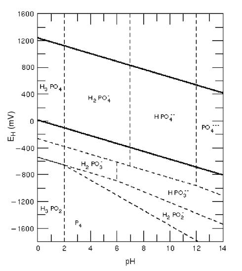 Pourbaix diagram of Phosphorus